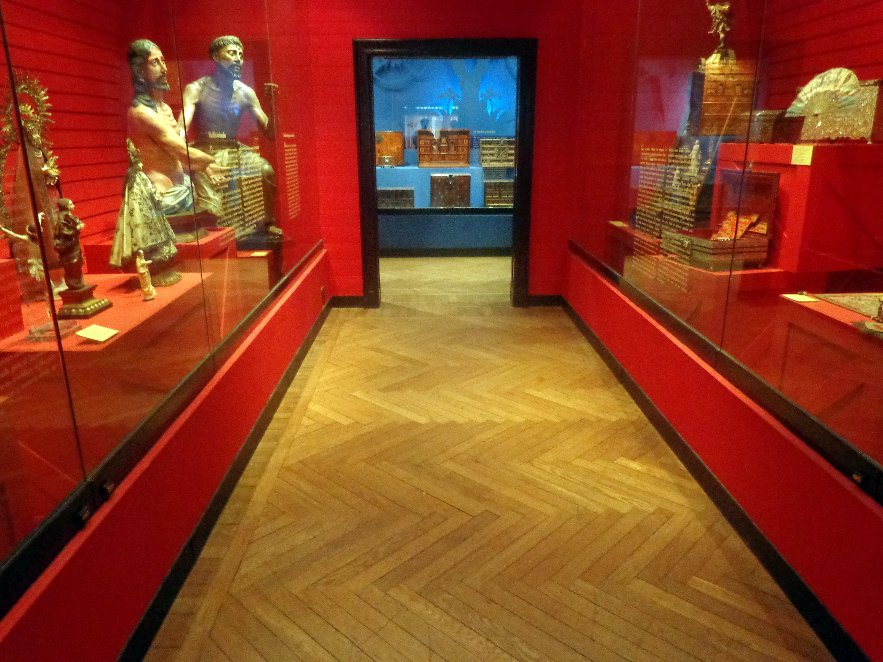 Noel Palace, home of the Hispano-American Museum "Isaac Fernández Blanco". Suipacha 1422, Buenos Aires (Argentina).